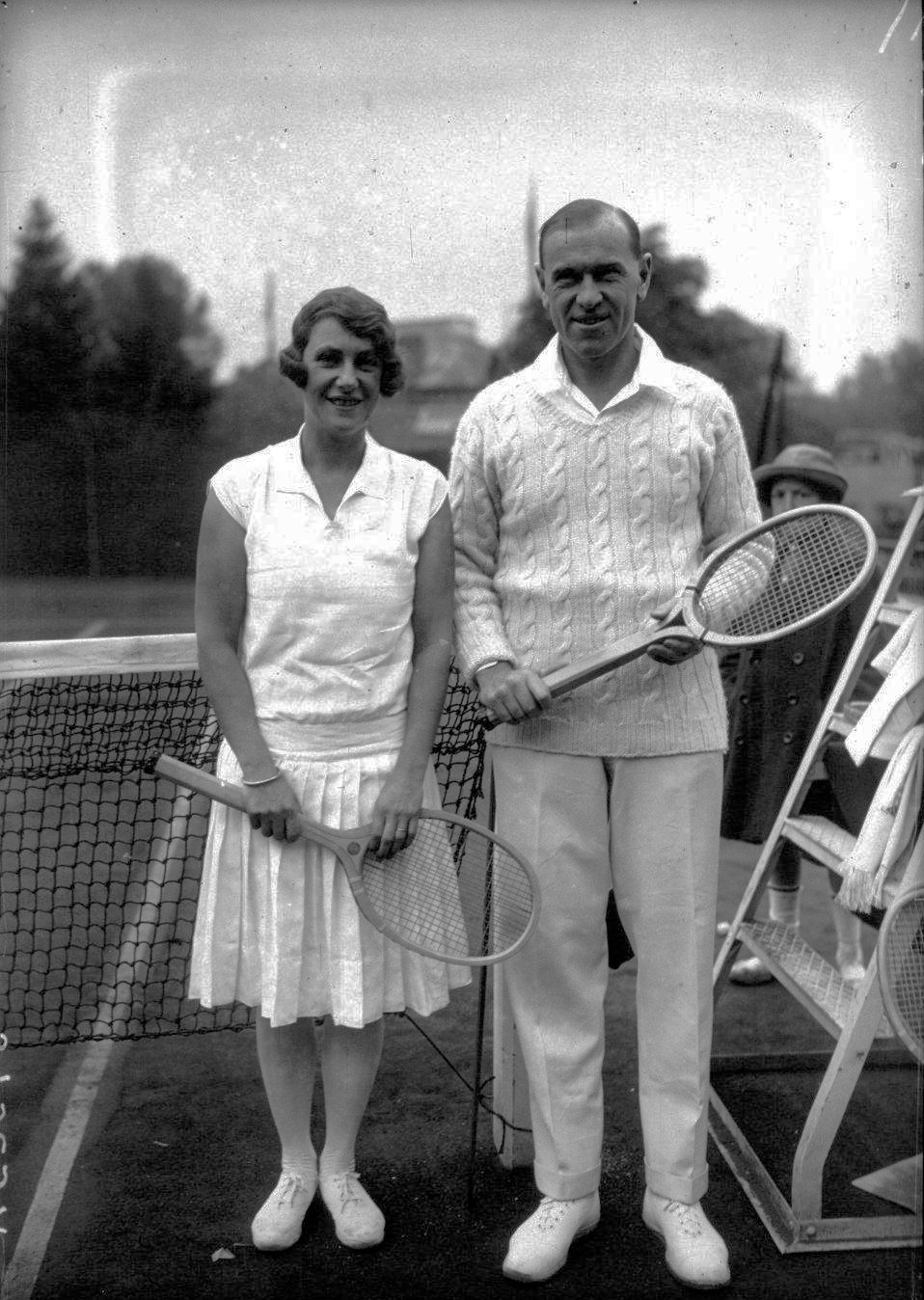 Australian tennis players Meryl O'Hara Wood and Gerald Patterson, at the French Championships 1928 at Paris.